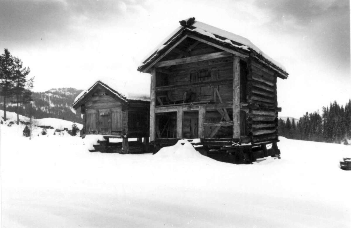 Loft, timberbuilding